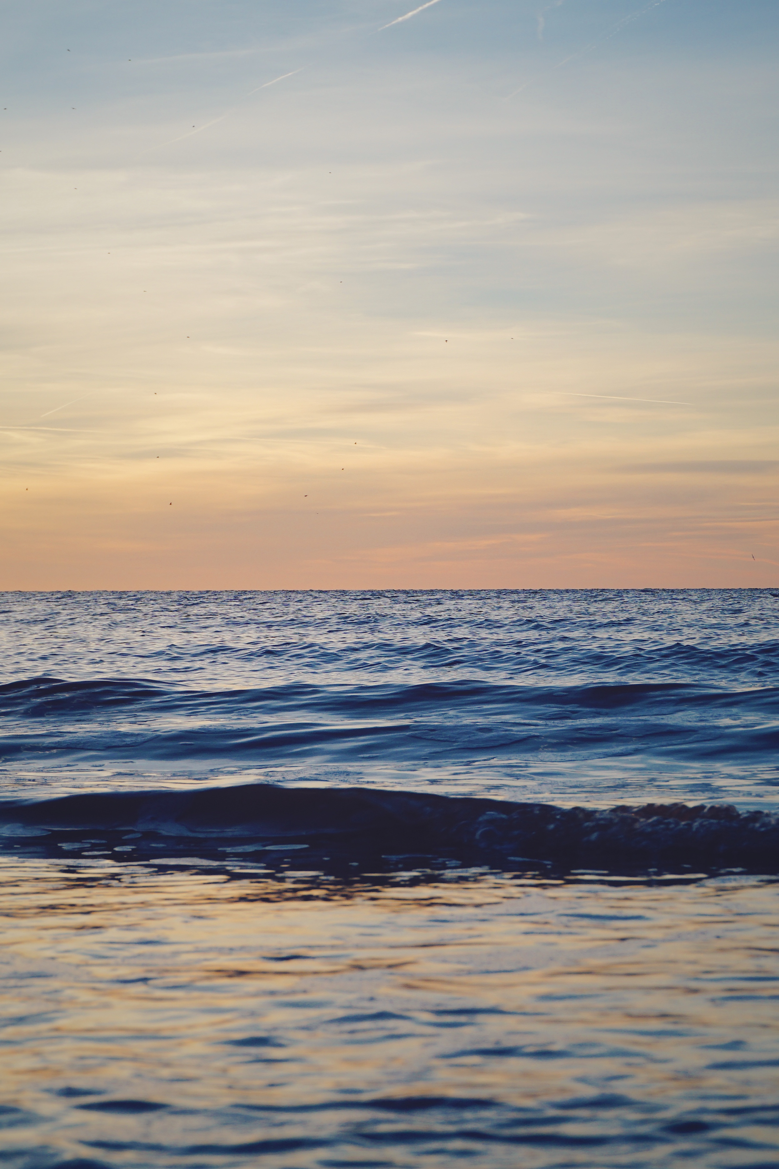 Hunstanton, United Kingdom